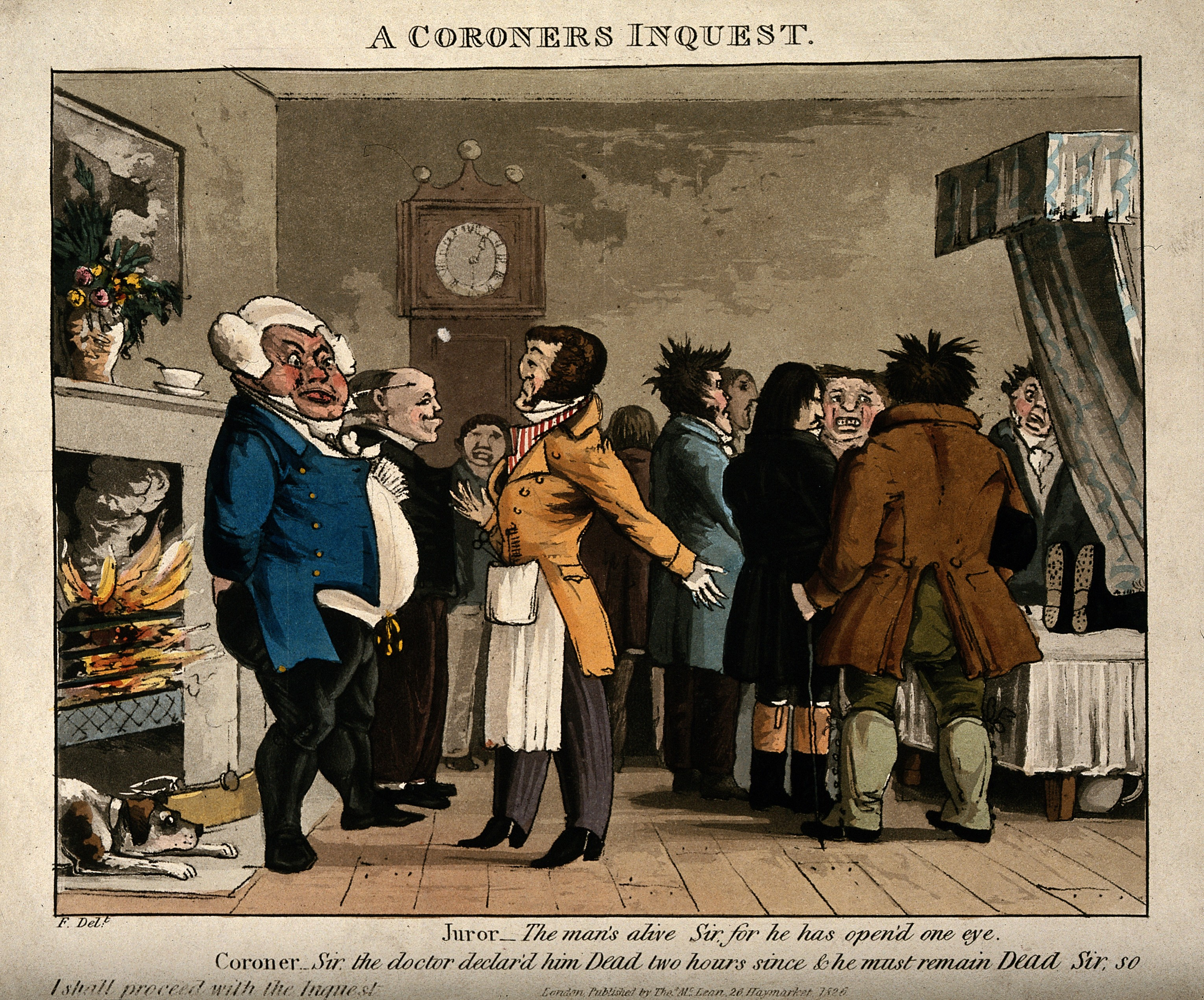 A juror protesting that the subject of a coroner's inquest is alive; showing the danger of blind faith in doctors. Coloured aquatint by F, 1826. Iconographic Collections Keywords: F; Death; century; aquatints; costume - history - 19th centu; Caricatures; house furnishings - great brit; coroners; Dogs